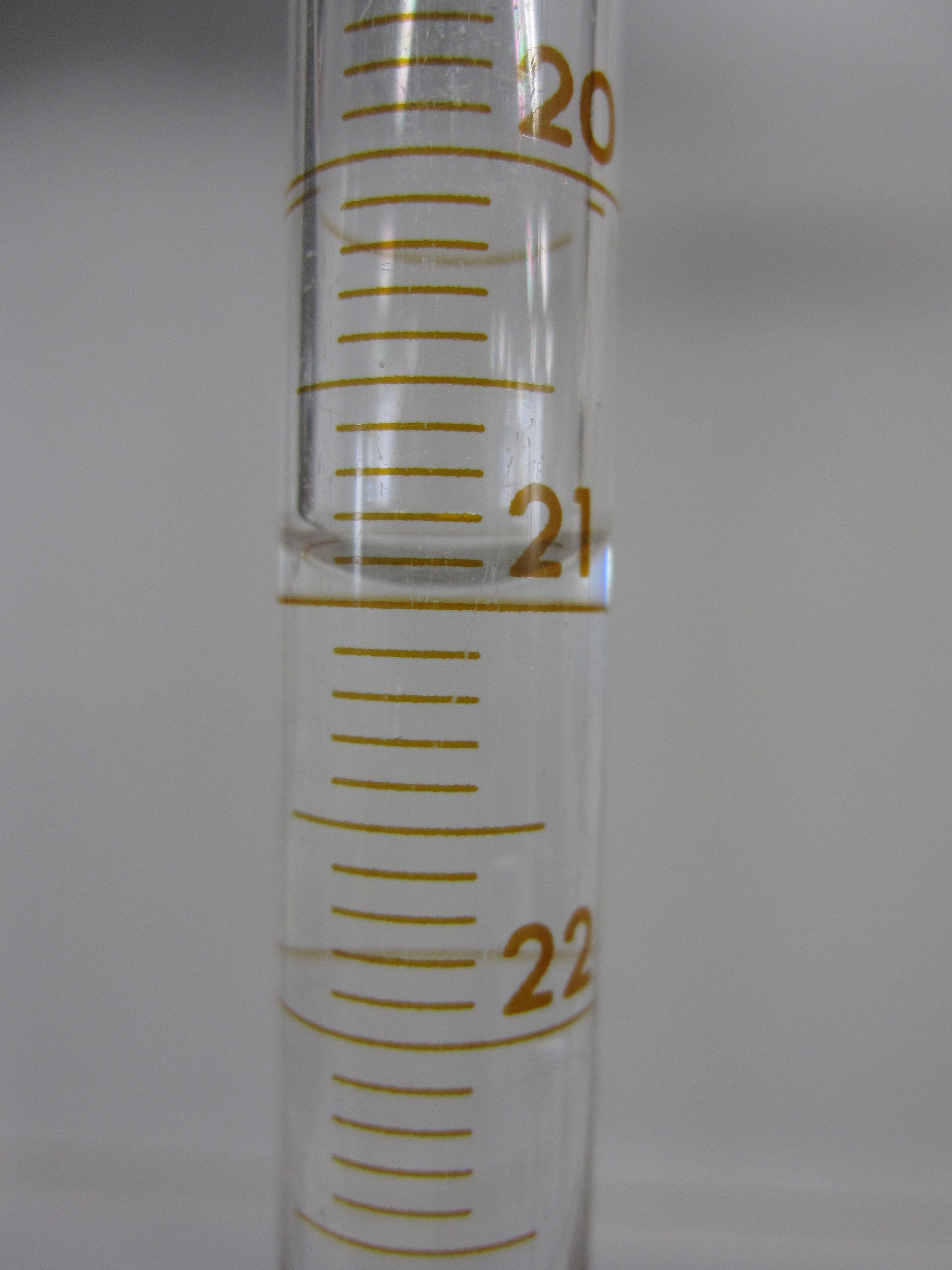 A meniscus of water in burette. 21.00 mL.